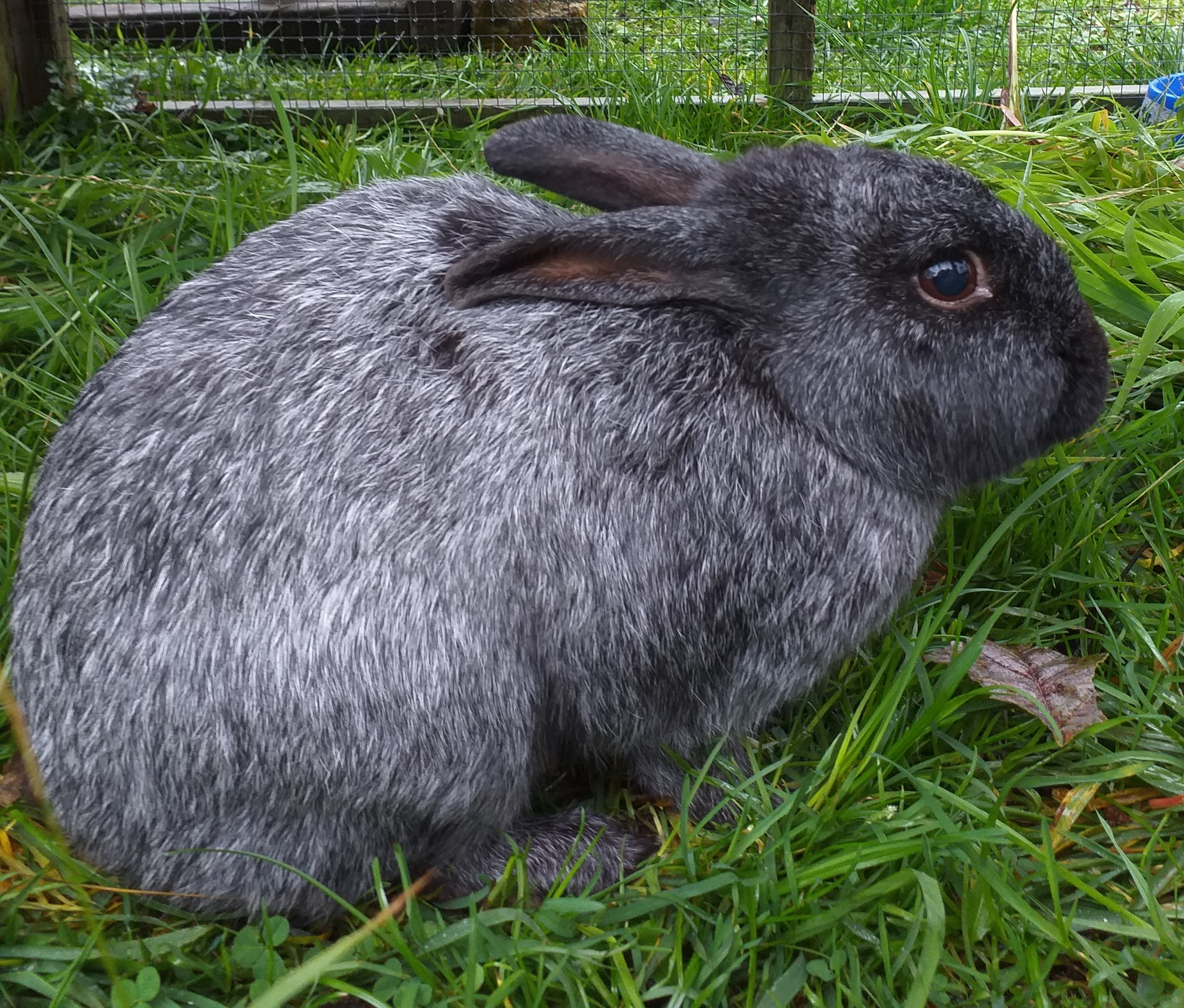 Closeup detailing the fur of typical coloured Enderby Island Rabbit